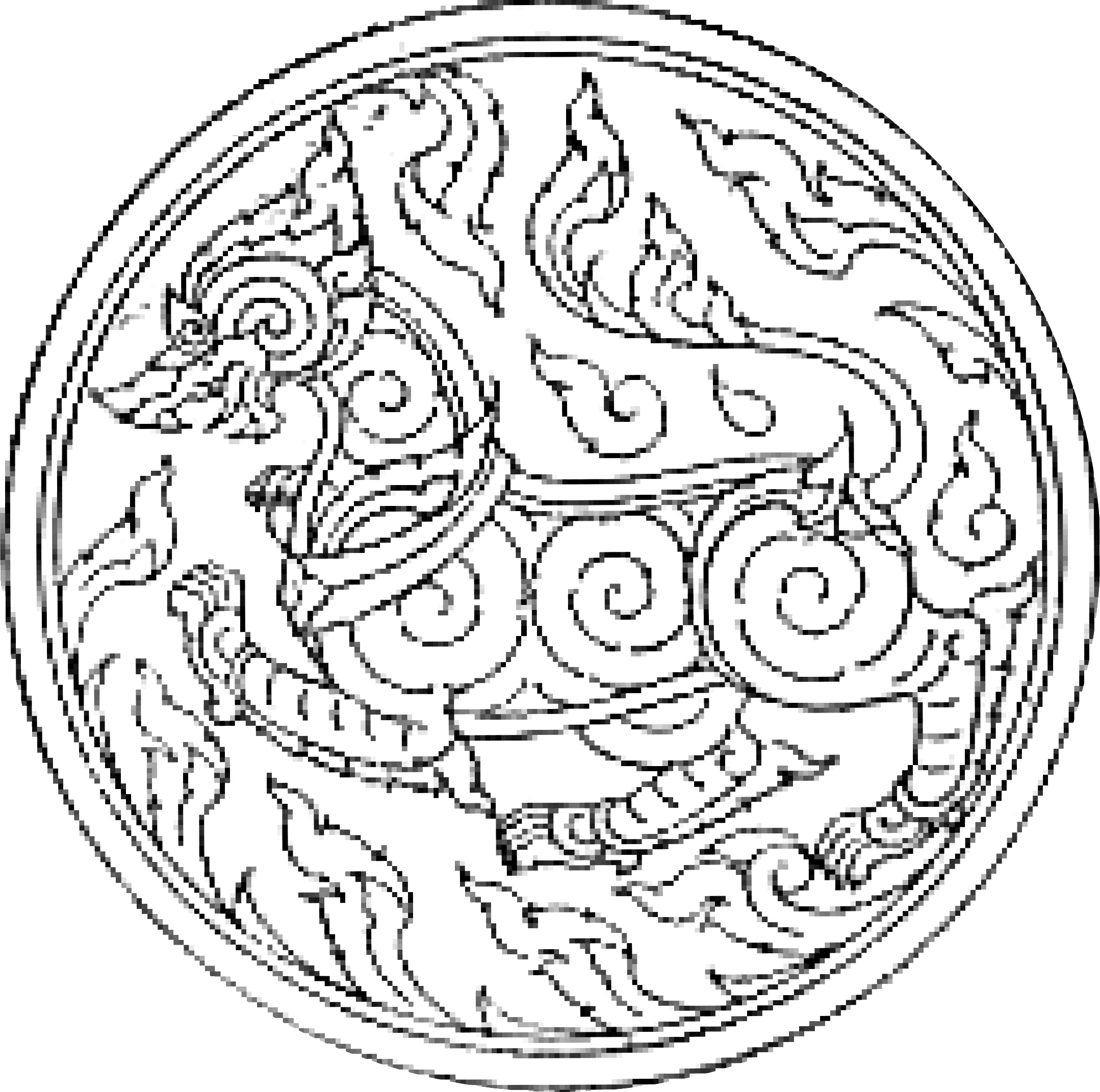 The Seal of the Rajasiha (Lion), see detailed information in The Royal Emblems and the Positional Seals by Phraya Anumanratchathon (Yong Sathiankoset).